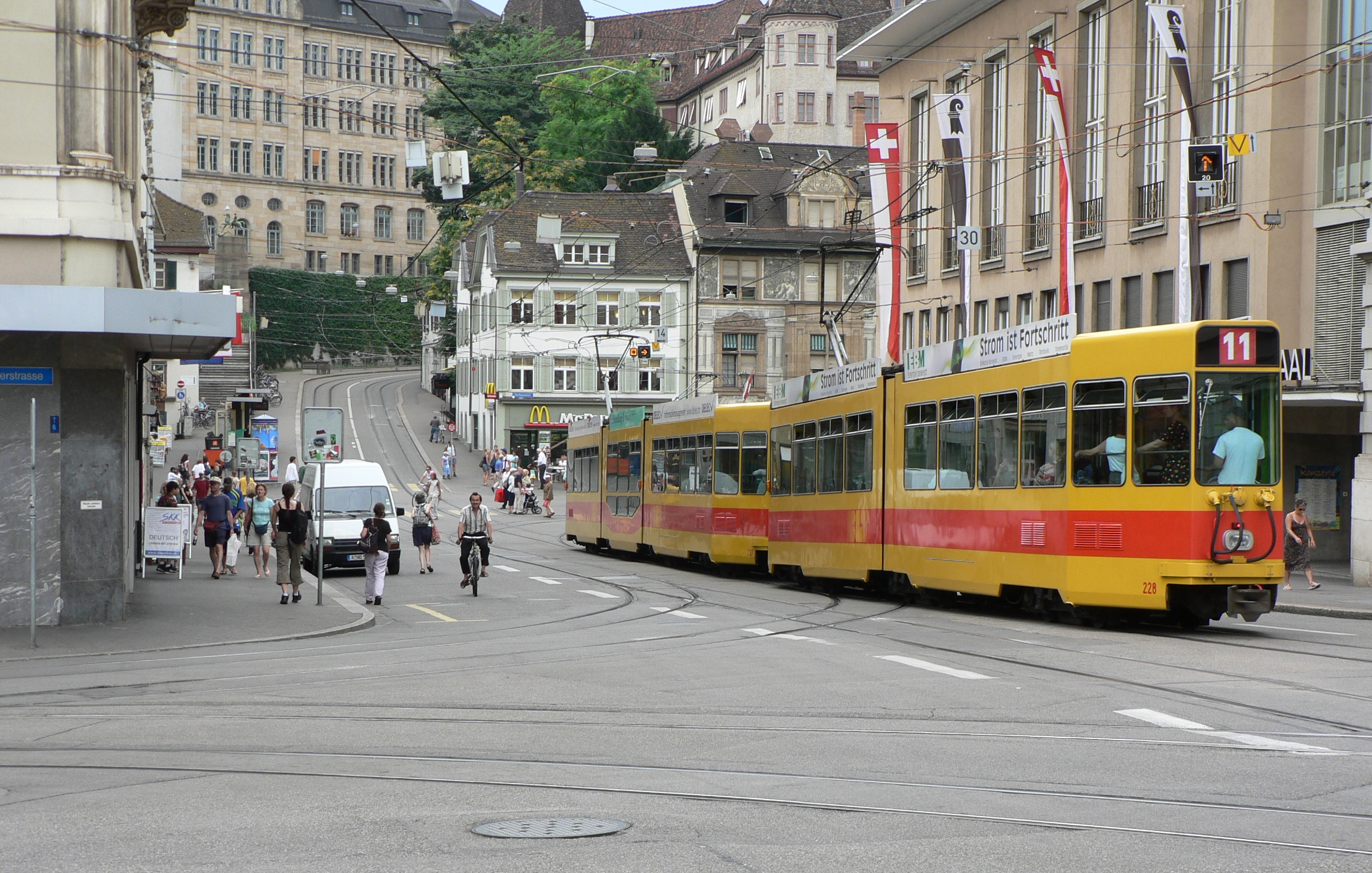 BLT tram Line 11, in the "Steinenberg", Basel, Switzerland